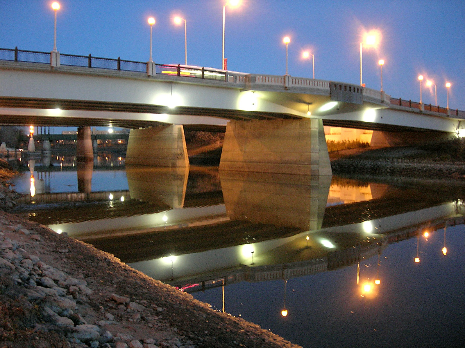 The Main Street Bridge across the Assiniboine River in Winnipeg, Manitoba, Canada.